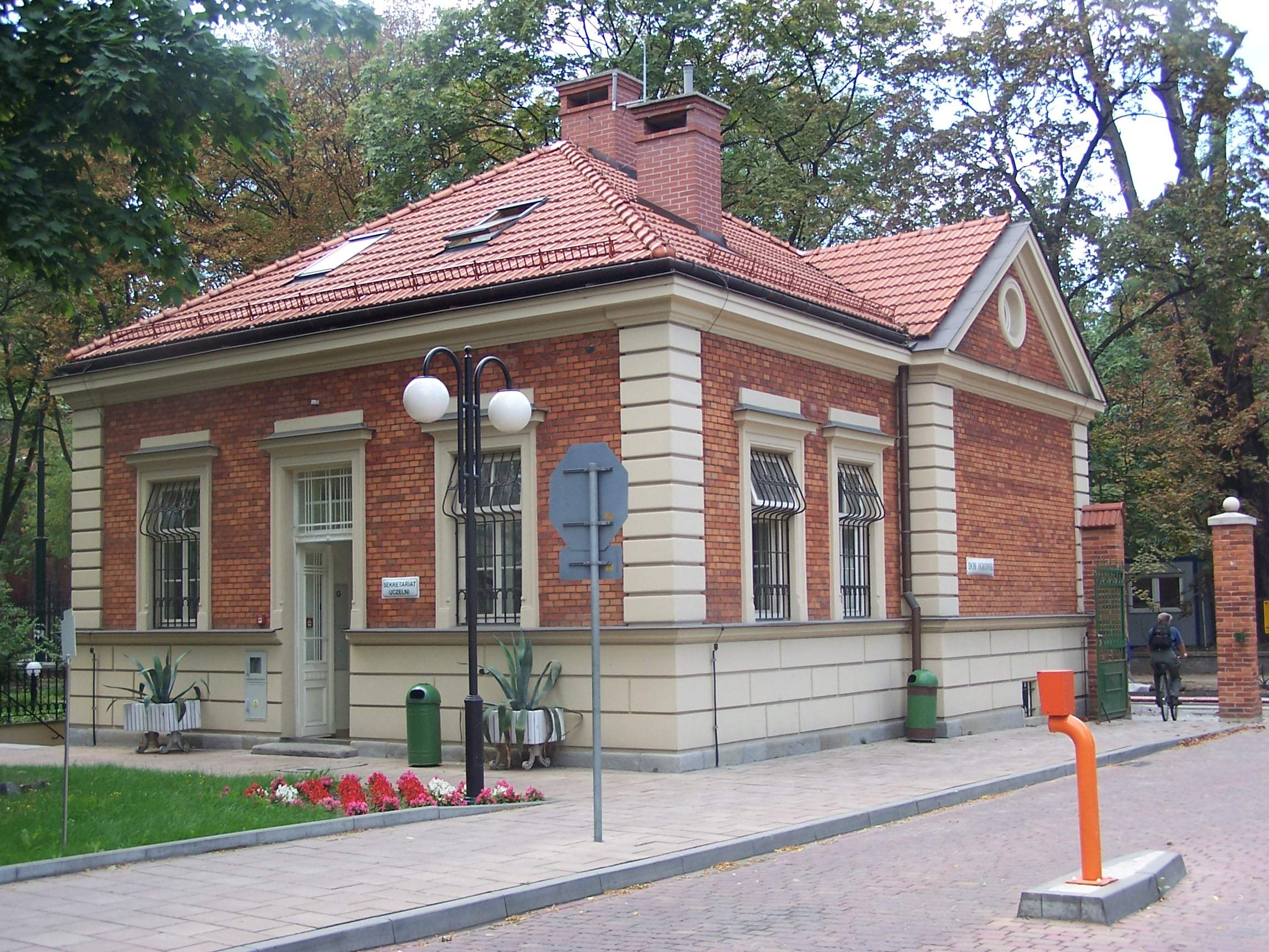 Photo by Piotrus. Academy of Economics in Kraków. Building H. Gardener's house (Dom Ogrodnika), University's Secretary (Sekretariat Uczelni).